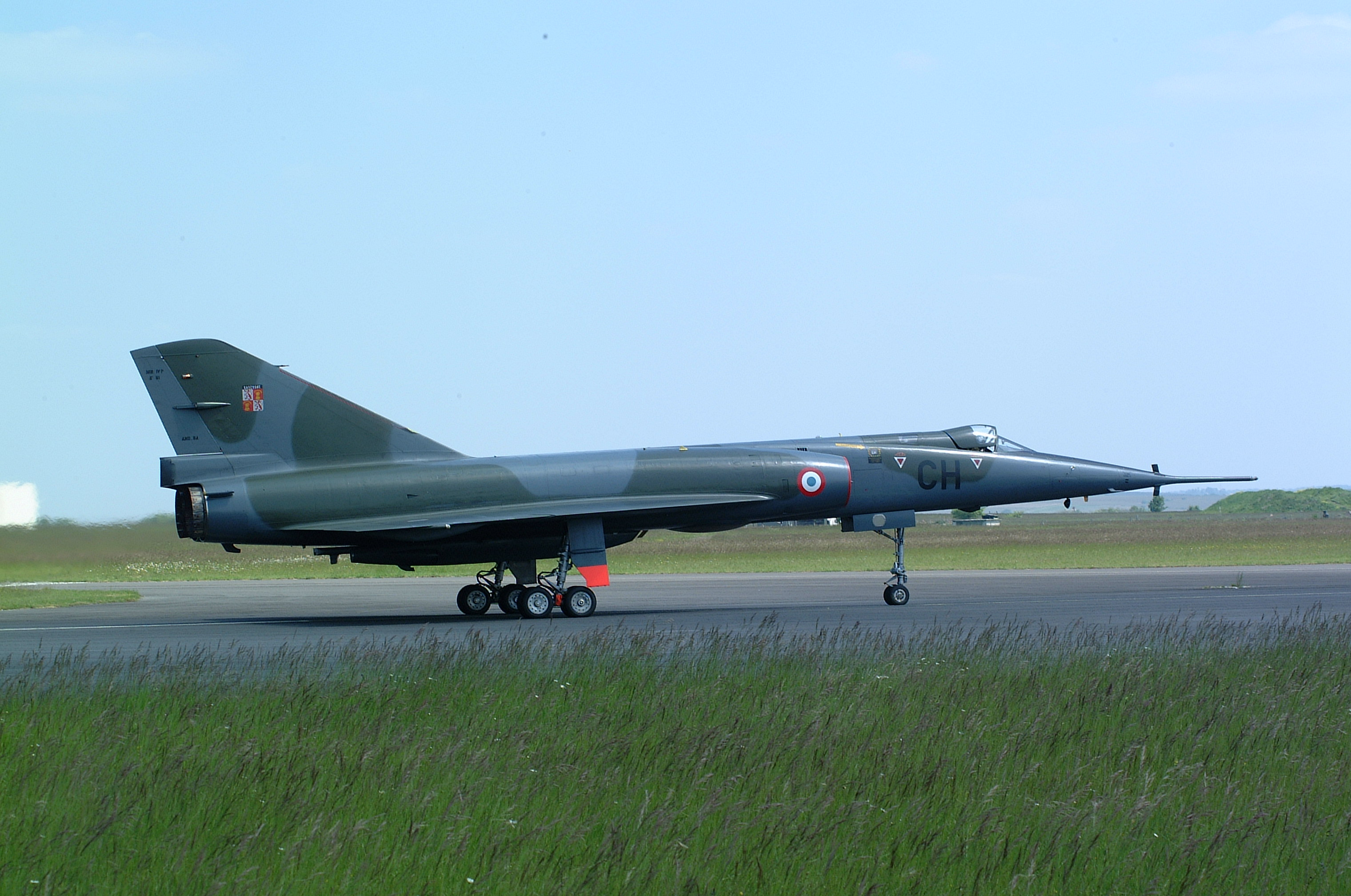 For many years the Mirage IV was the main French nuclear strike bomber but towards the end of its career they were used as recce platforms, hence the 'P' at the end of the type designation. They've all been retired now.